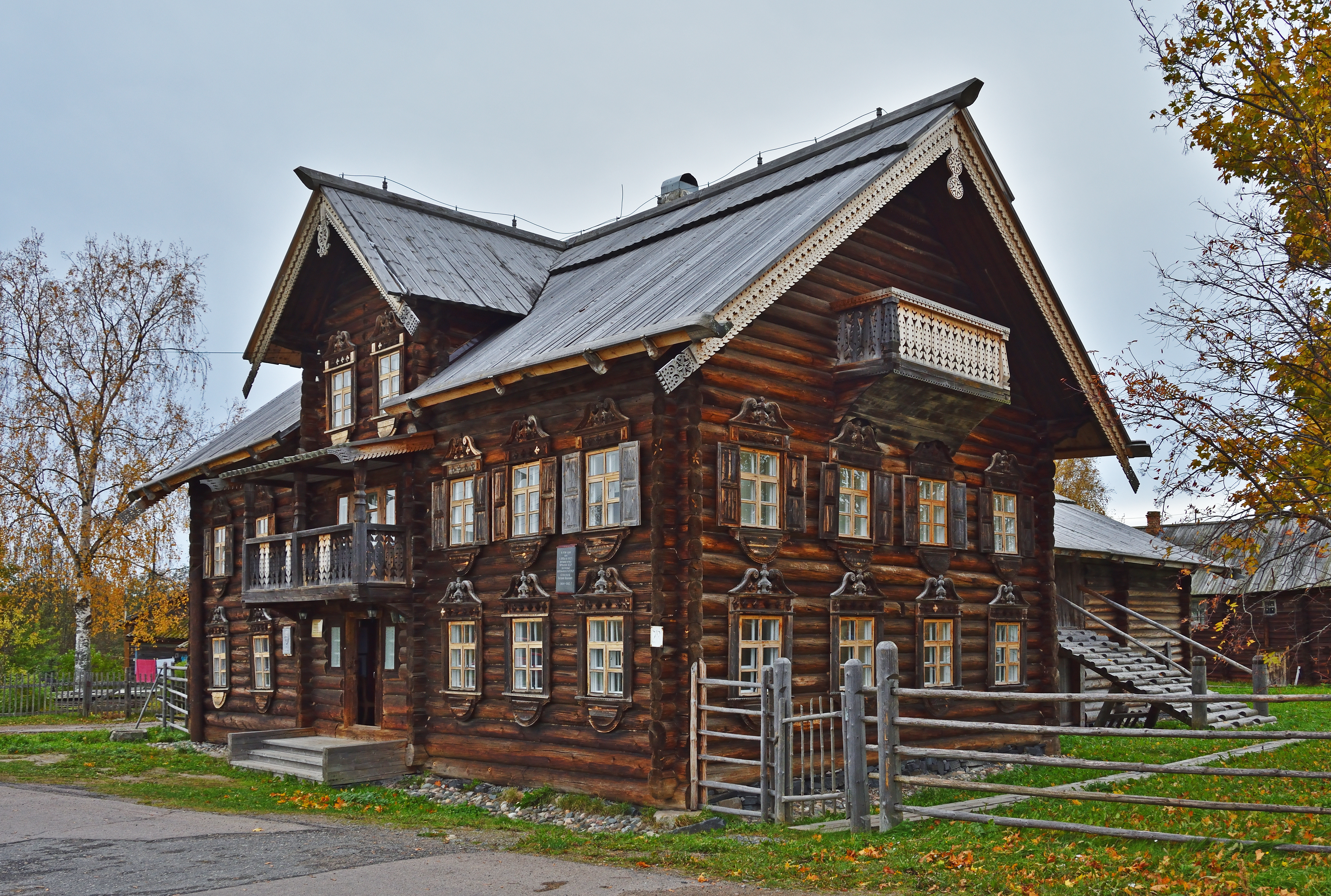 Melkin house = Shyoltozero Ethnographic Museum, Pochtovaya street 28, Shyoltozero, Karelia